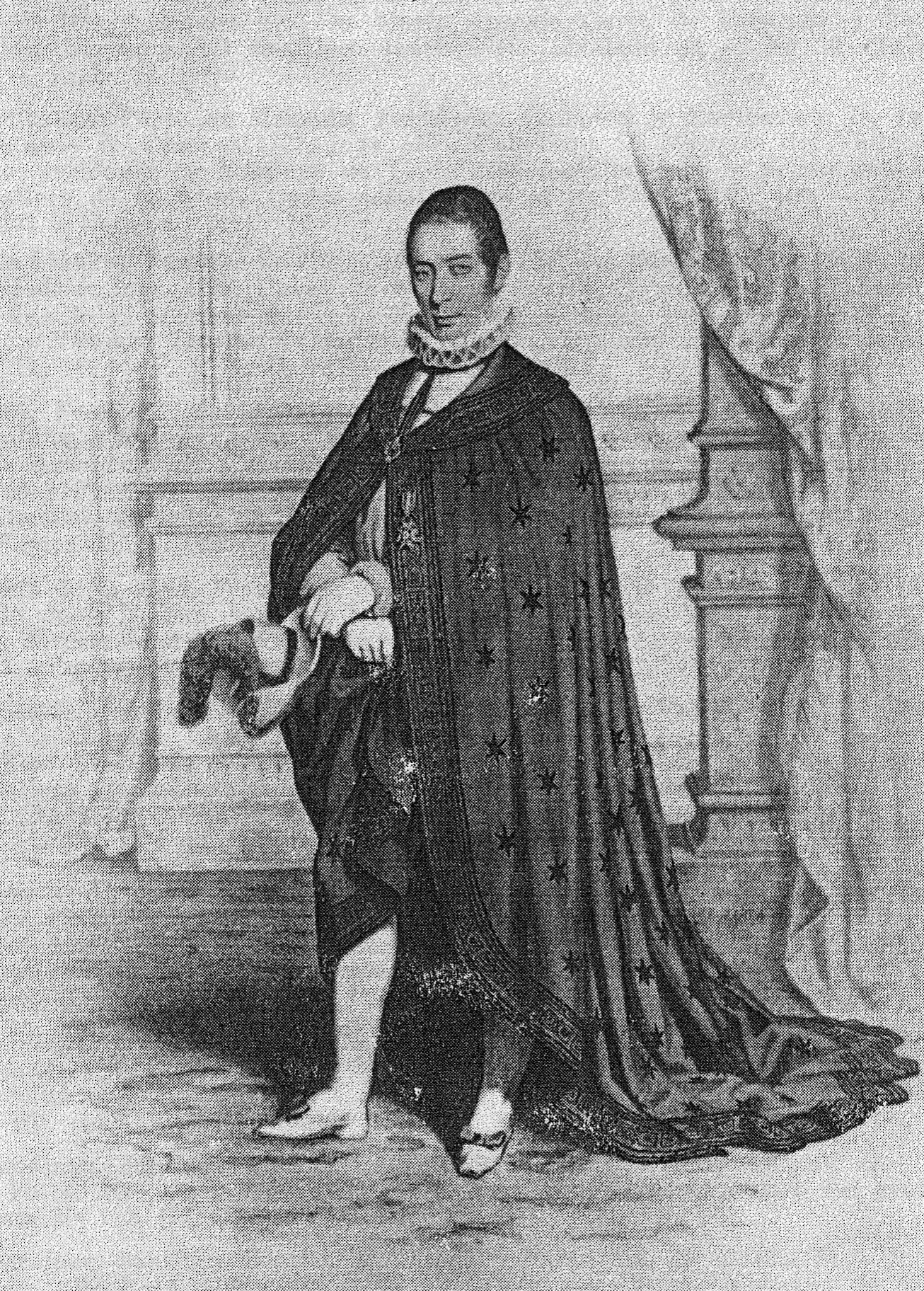 Portrait of José Toribio de Larraín y Guzmán, 1st Marquis of Larraín.